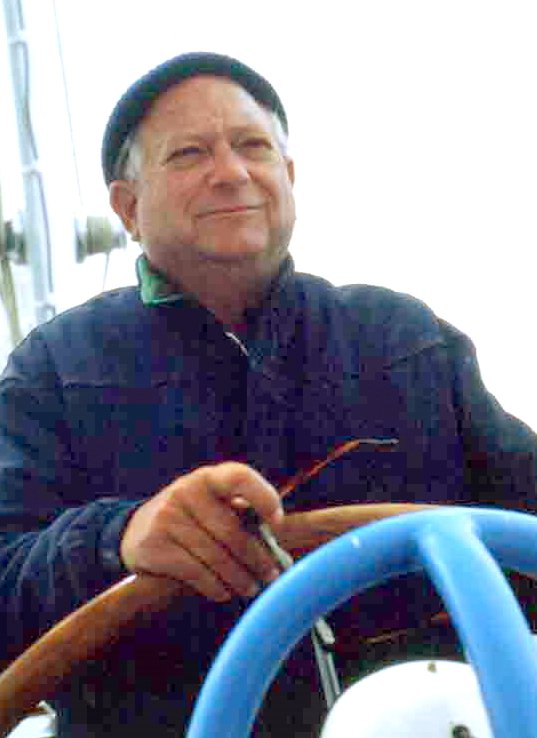 Summary This picture was taken by David M. Alexander in the early 1980s on Jack Vance's boat in San Francisco Bay. Alexander has hereby released his copyright to the picture and has placed it in the public domain to be used for any purpose and by anyone who wants to use it, as long as he is credited as being the photographer. Hayford Peirce 20:16, 3 April 2006 (UTC)